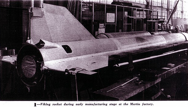 A Viking rocket being assembled.